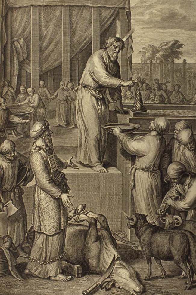 Moses consecrates Aaron and his sons and offers their sin offering; as in Leviticus 8:15: "And he slew it; and Moses took the blood, and put it upon the horns of the altar round about with his finger, and purified the altar, and poured the blood at the bottom of the altar, and sanctified it, to make reconciliation upon it."; illustration from the 1728 Figures de la Bible; illustrated by Gerard Hoet (1648–1733) and others, and published by P. de Hondt in The Hague; image courtesy Bizzell Bible Collection, University of Oklahoma Libraries